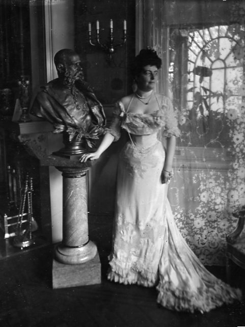 Baron Ladislaus Hengelmuller de Hengervar (also Laszlo Hengelmuller von Hengervar), (1845-1917) was a longterm Austro-Hungarian Ambassador to the United States, stretching through multiple Presidential administrations including those of William McKinley, Theodore Roosevelt and William Taft.